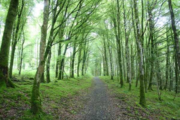 Forest walk in Mullaghmeen Forest in Westmeath in Ireland